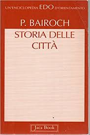 Storia delle città, Paul Bairoch